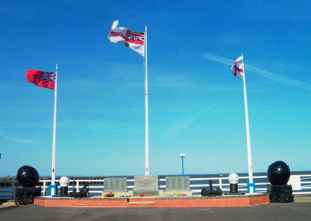 Royal Naval Patrol Service Veterans War Memorial. Grimsby Royal Docks was the largest base for minesweepers in the British Isles, and minesweepers from this base used to go out into the North Sea to sweep the shipping lanes, passing the dock tower and Queen’s Steps as they went out into the shipping lanes of the Humber.The memorial built between 2nd September, 2001,and August 2003, paid for by the veterans on land given to them by Associated British Ports close to the Dock Tower and the Queens Steps.